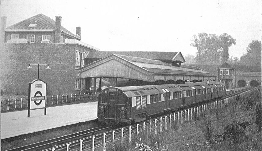 A Tube Railway Above Ground Hendon Central Station, London Electric Railways Photo: Underground